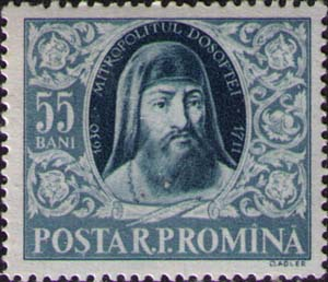 1955 Romanian Post, 55 bani, dark bluegrey, representing Dosoftei; Series:Romanian Writers